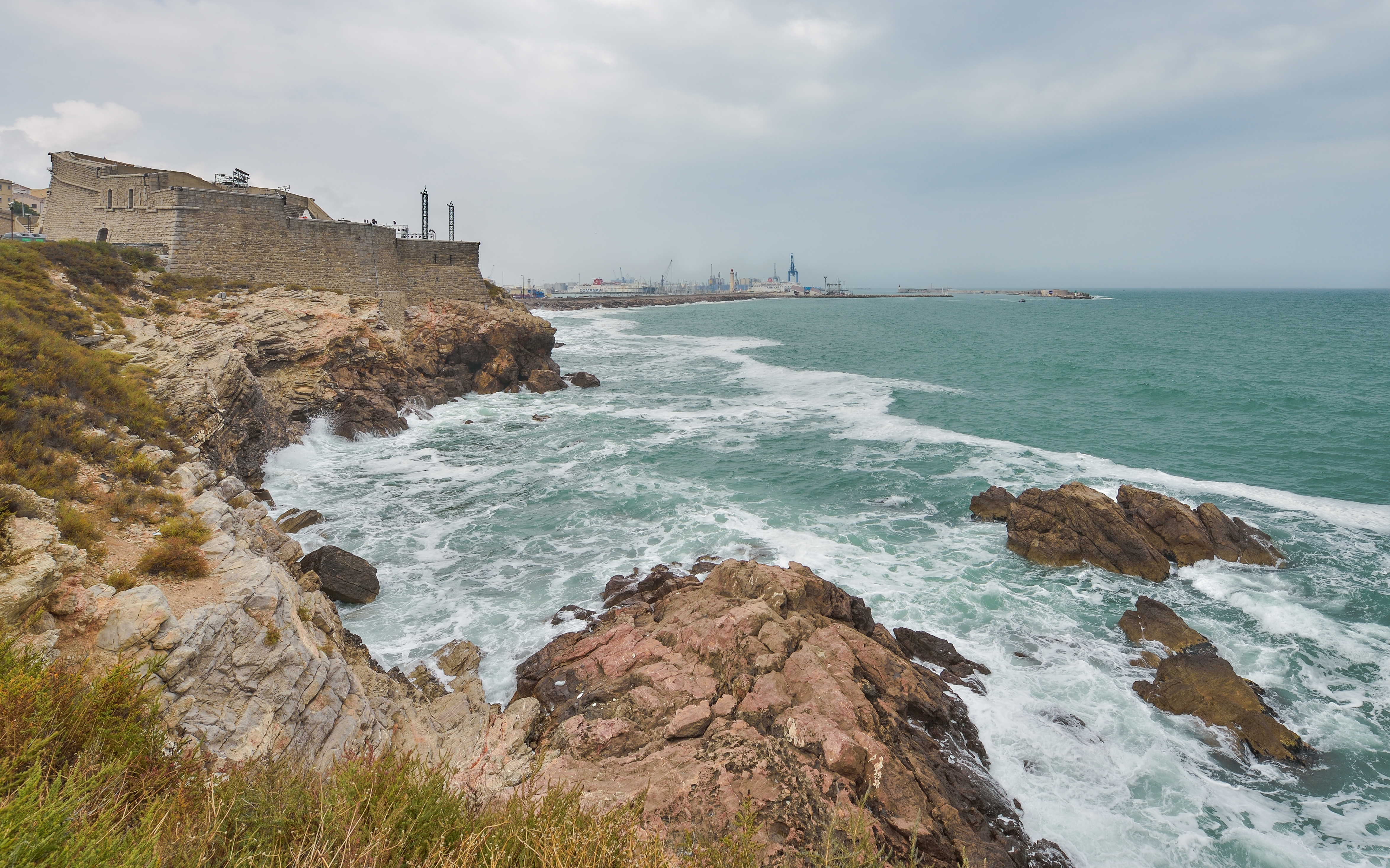 The Mediterranean Sea and the Théâtre de la Mer formerly Fort Saint Pierre built between 1743 and 1746 by engineer NIQUET after the attempt of invasion by England in 1710. View from the rocks in southwest. Sète, Hérault, France. For information the weather on the picture is called the Maritime Weather, and the sea is more dangerous than it looks : this day seven persons are dead by drowning in the Hérault Department.